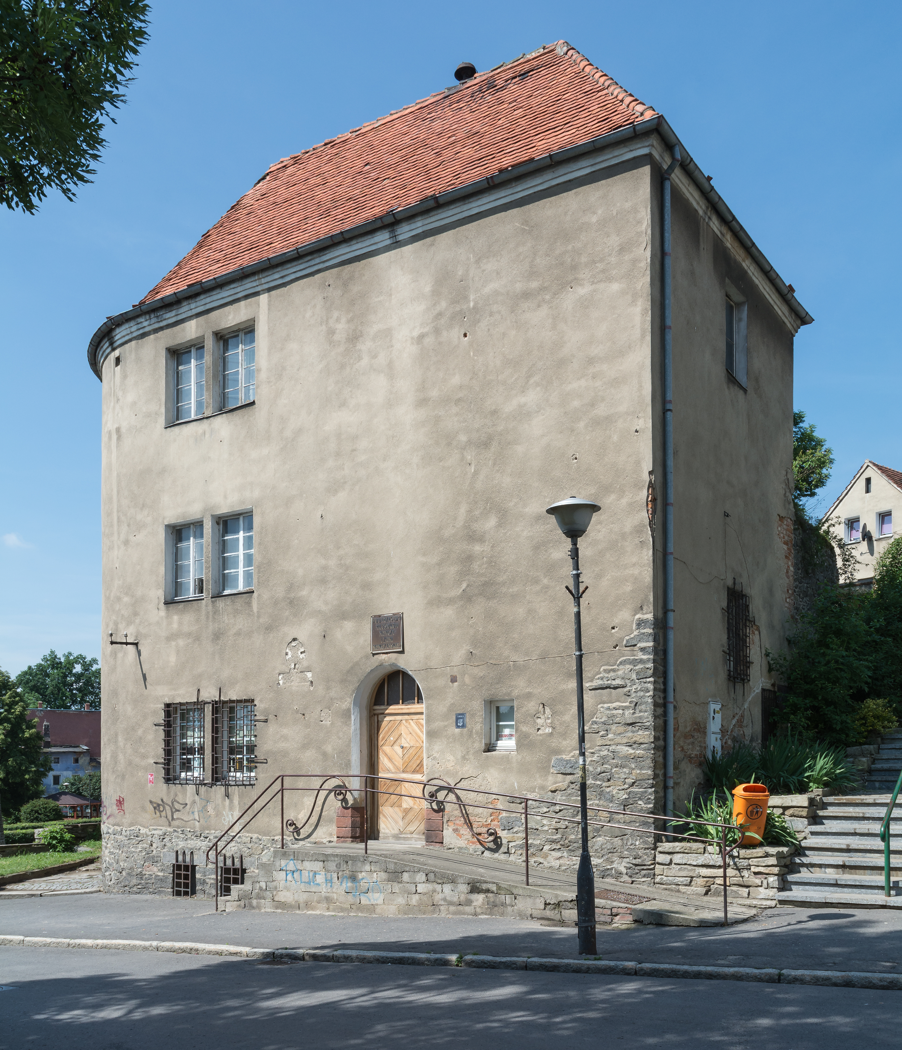 Tower of the Upper Gate in Niemcza